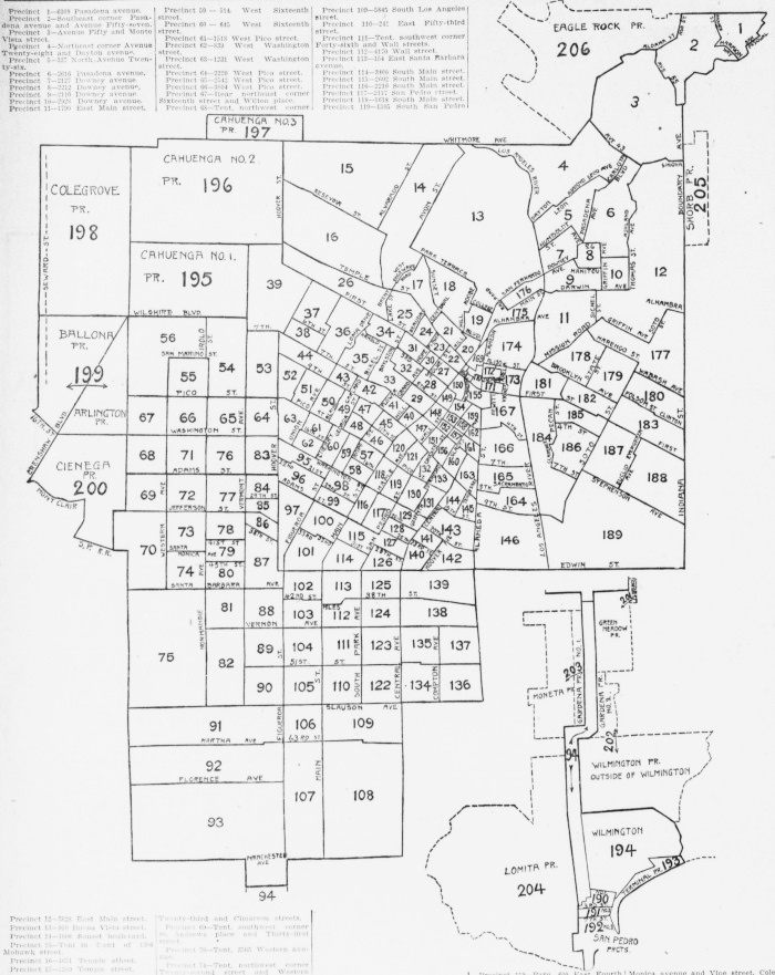 Map of 1909 voting precincts for List of Los Angeles Municipal election returns